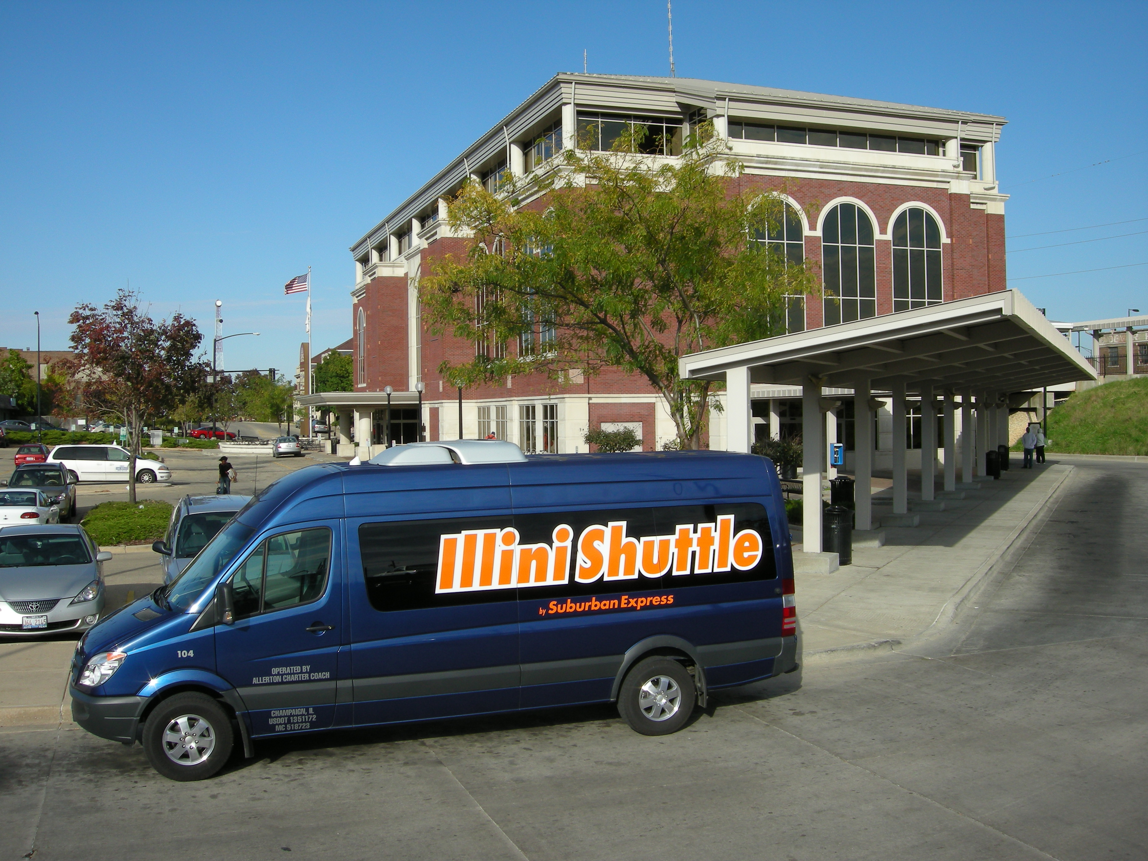 Intermodal Transportation Center in Champaign, IL